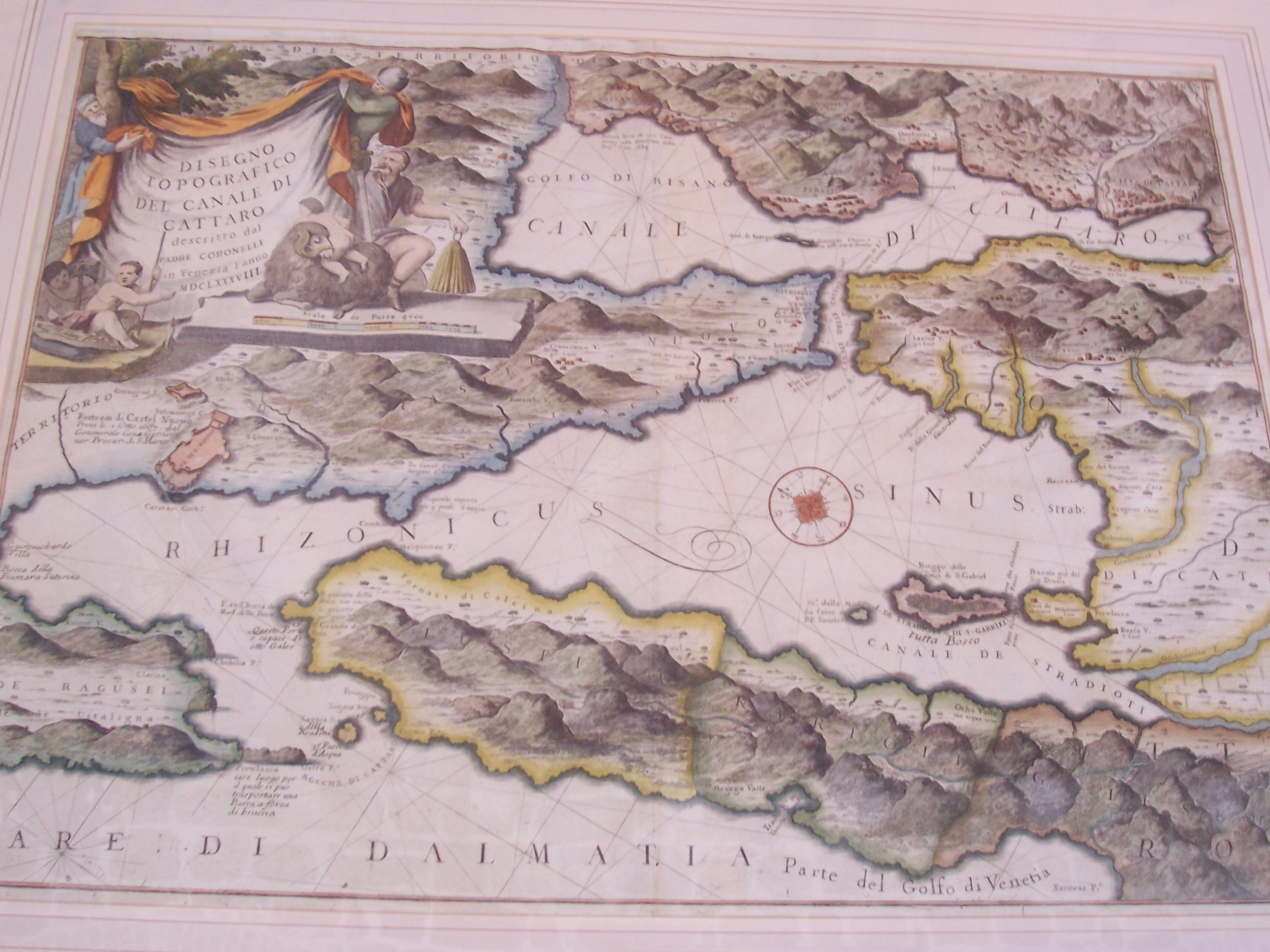 Map of "Bocche di Cattaro" - Cattaro Mouth - Kotor (Montenegro - ex venetian dominion)